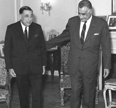 The Lebanese Speaker of Parliament Sabri Hamada with Egyptian President Gamal Abdel Nasser in Cairo